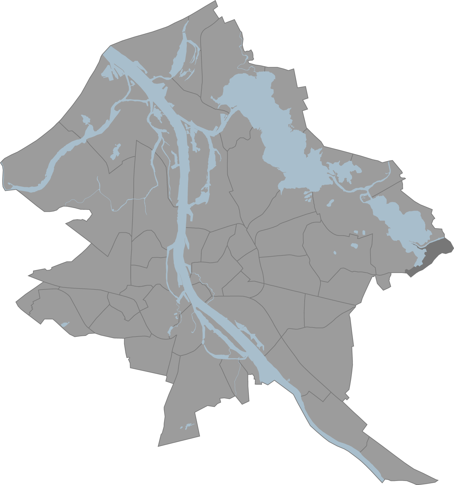 A map of Riga, Latvia with the eponymous commune highlighted